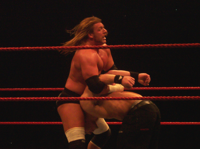 Triple H @ Adelaide, South Australia 'RAW' house show on the 28th of October '05